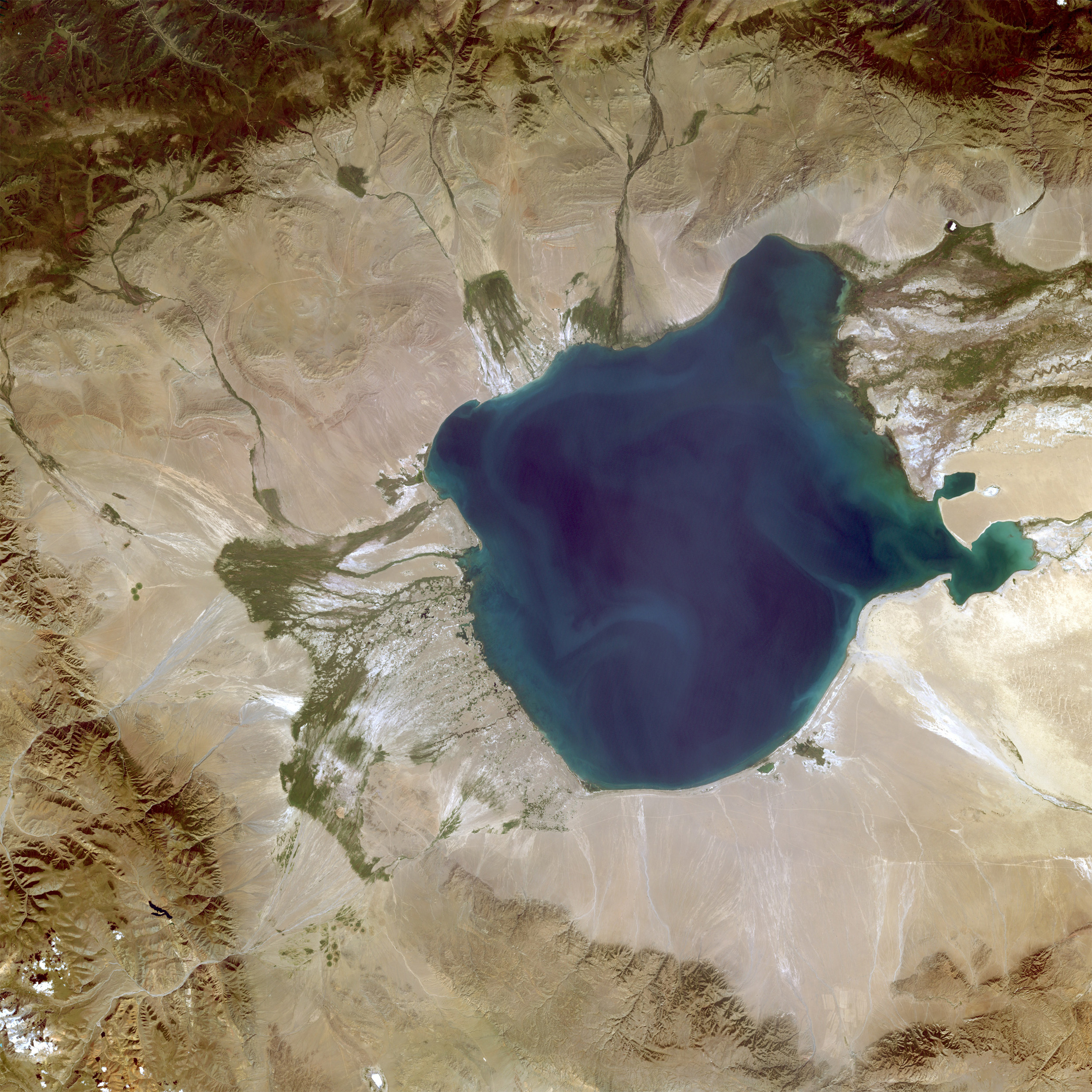 Uvs Nuur Hollow and Uvs Nuur Lake in the West Mongolia and South Syberia, Russia, Landsat-7 near natural colors image, 30 m resolution